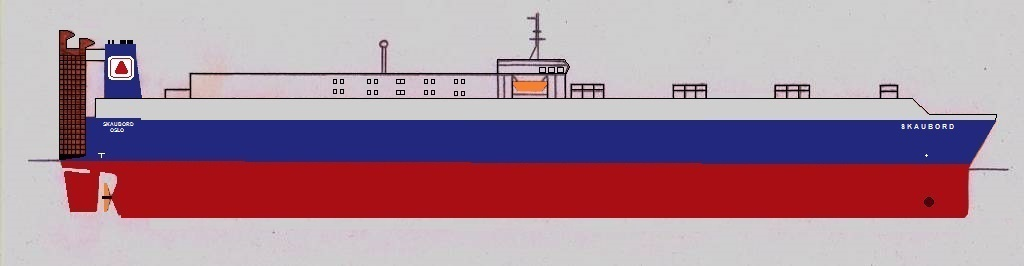 RoRo vessel ship